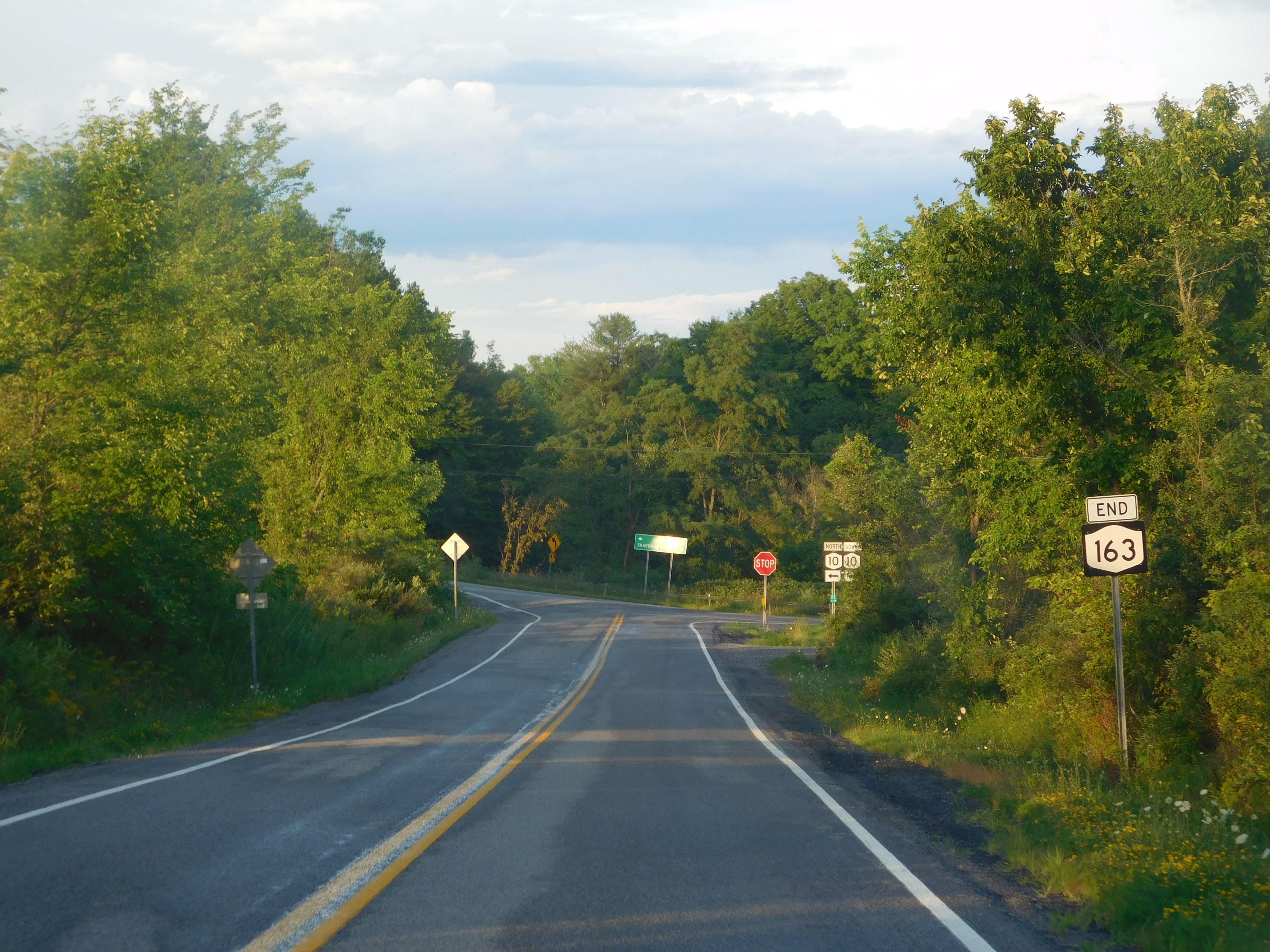 NY 163 approaching its end in the town of Canajoharie, New York.